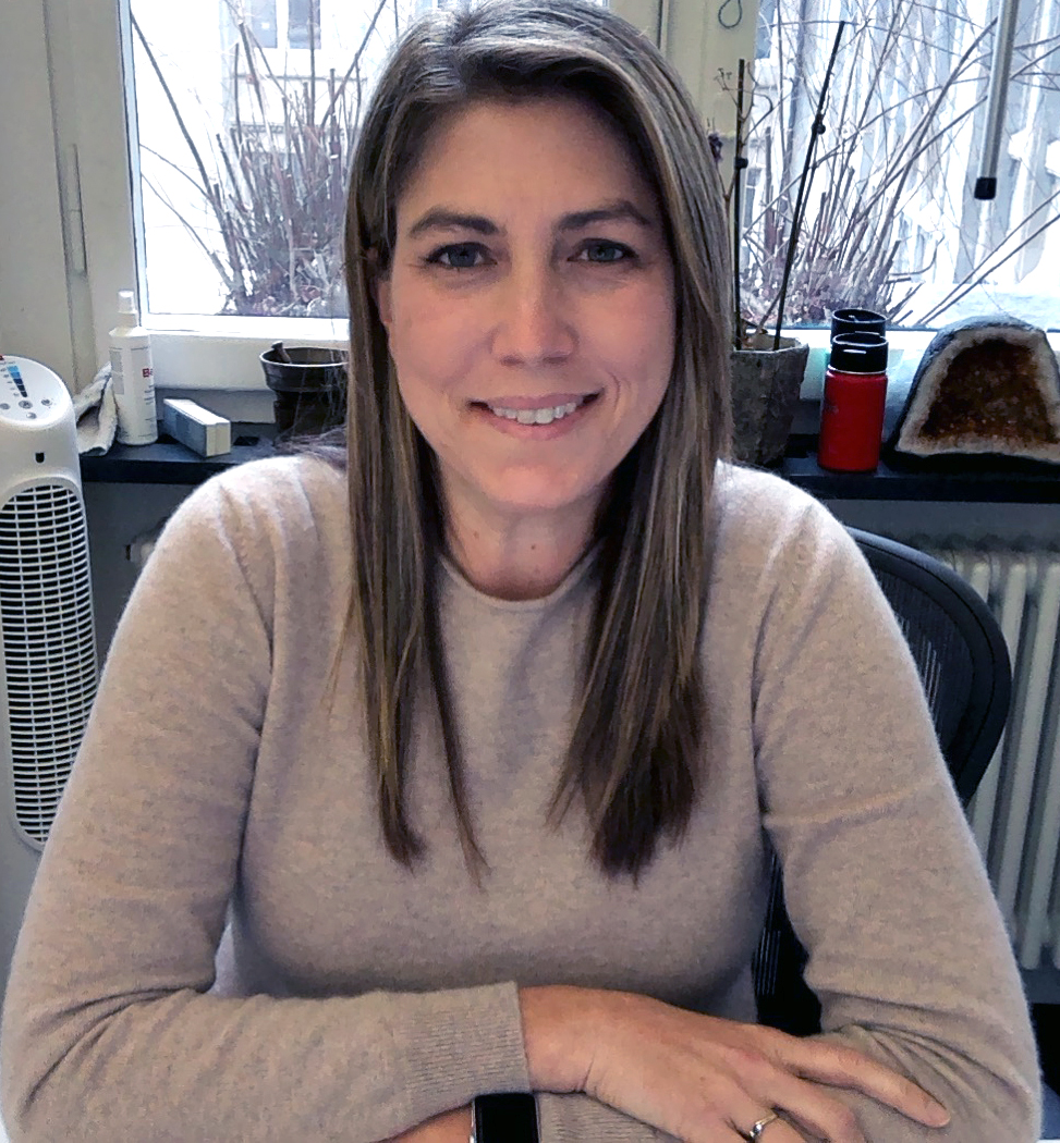 Prof. Dr. Whitney Behr at ETH Zurich